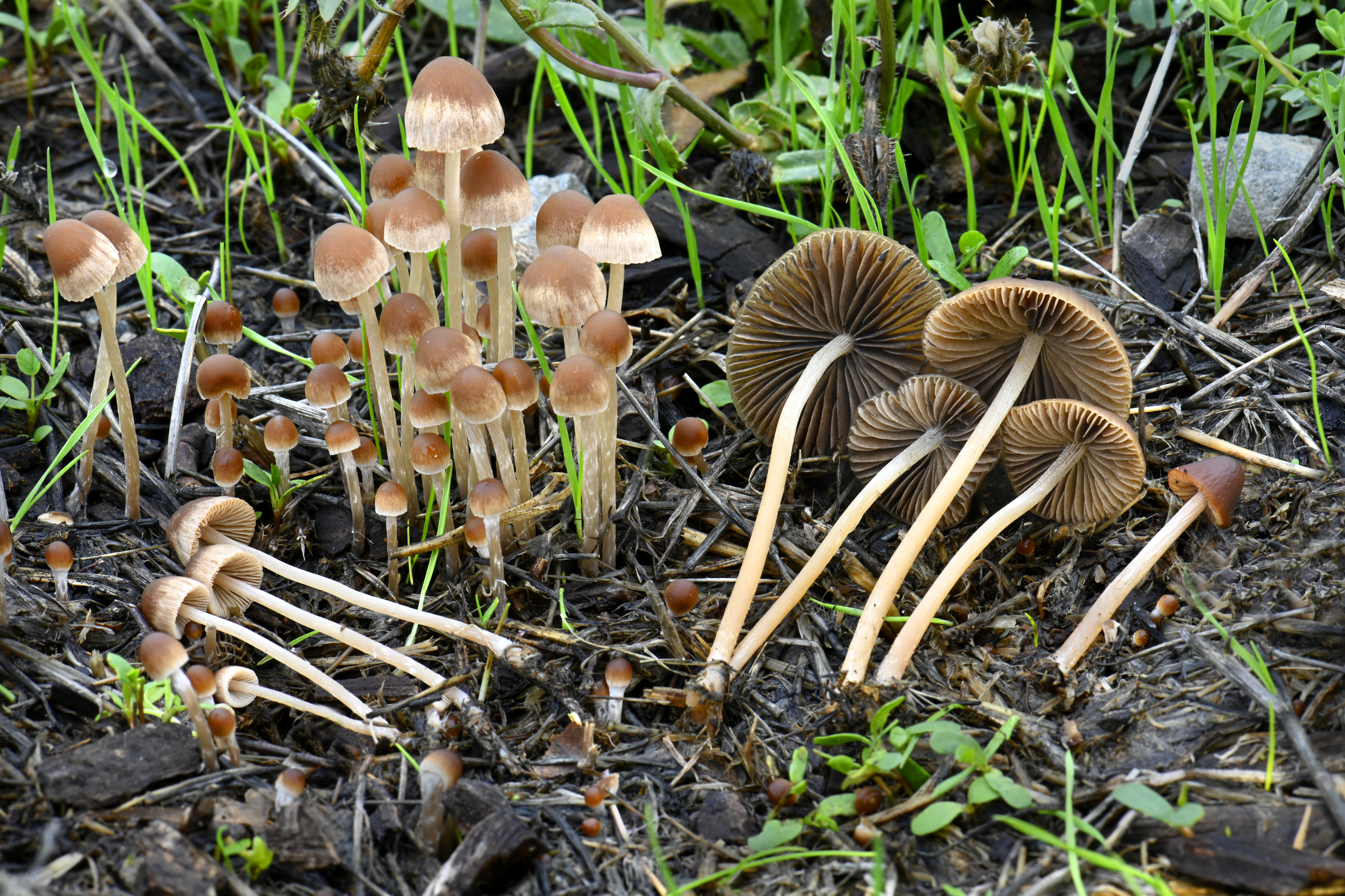 Psathyrella corrugis from Raimondi Park, Oakland, California, USA. Growing in an open area with wood chips.